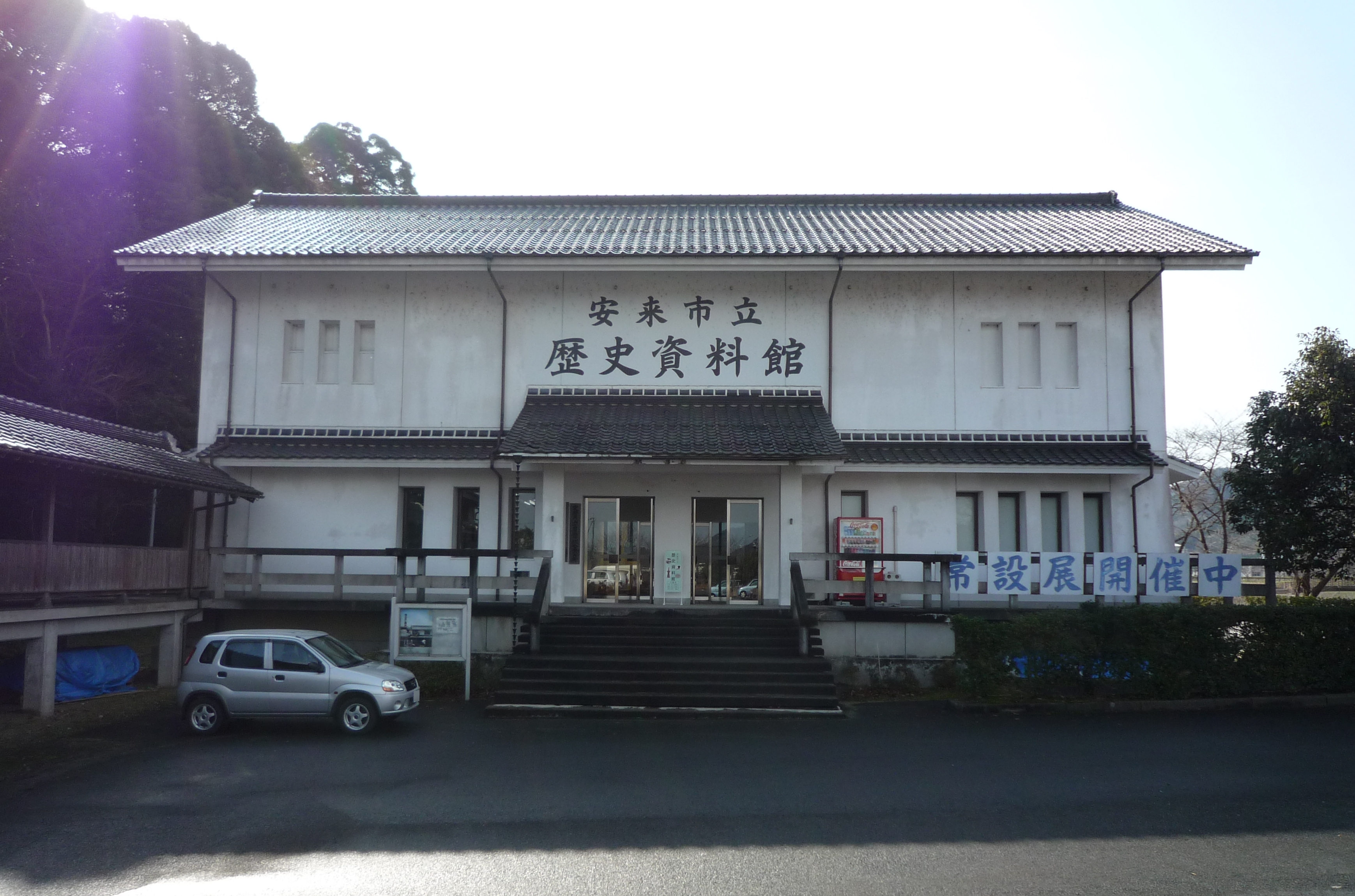 Yasugi Municipal History Museum, is added to Roadside Station Hirose Toda Castle at Yasugi City, Shimane Prefecture, Japan.